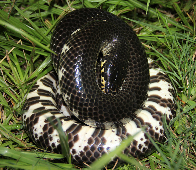 Anerythristic eastern mud snake (Farancia abacura abacura)